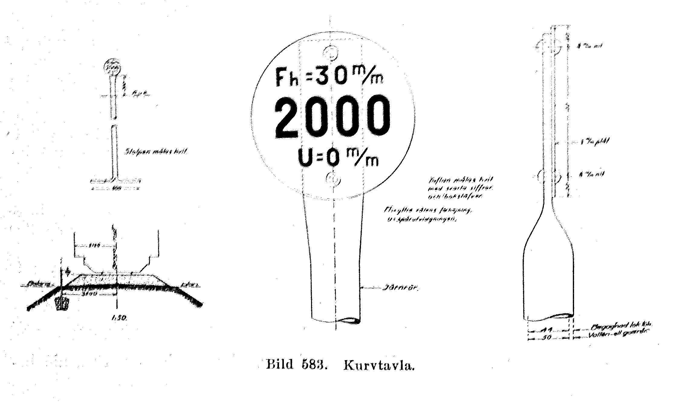 Extract from description of radius pole from Swedish State Railways book of making railways.